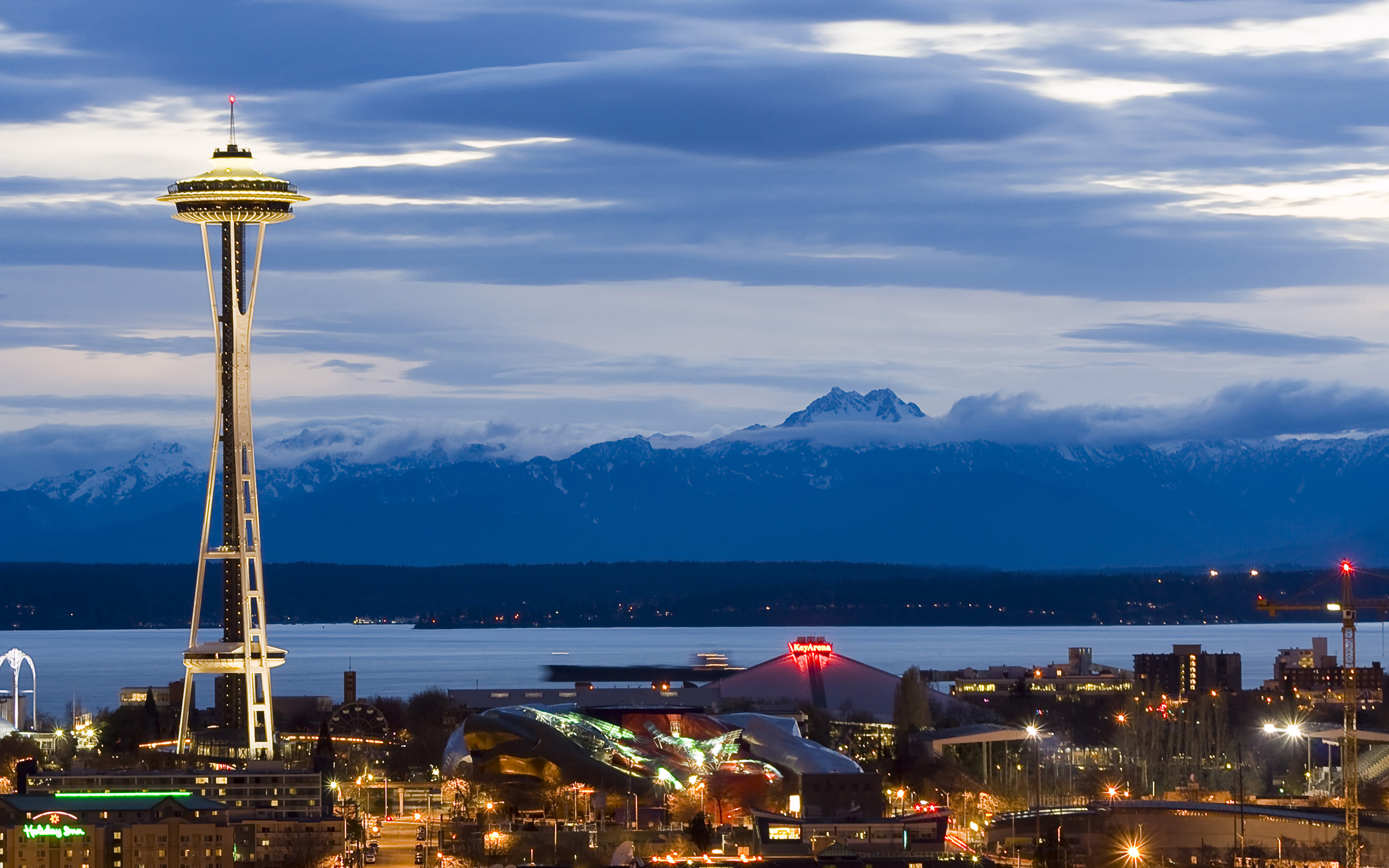 Seattle Center as night falls.